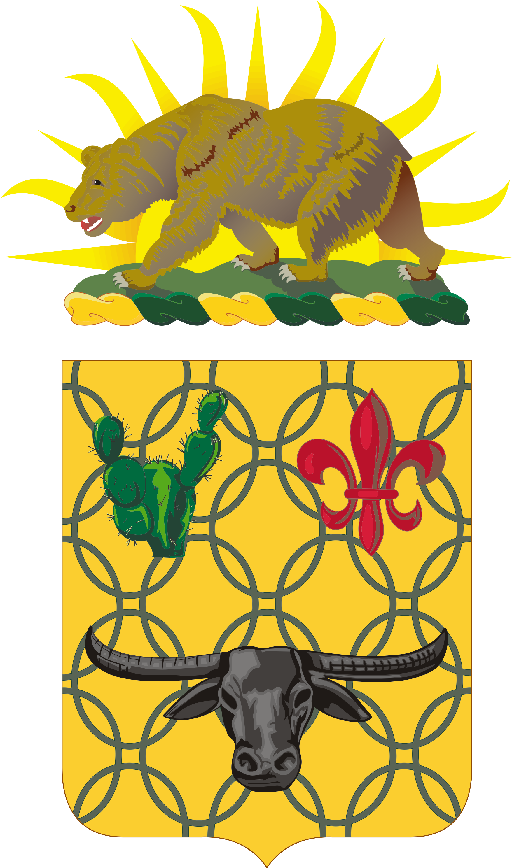 149th Armor Regiment coat of armsThe cactus symbolizes Mexican border service and the fleur-de-lis for service in World War I. The carabao, a beast of burden, is common in the Philippines and represents World War II service. The chain mail is symbolic of armor.